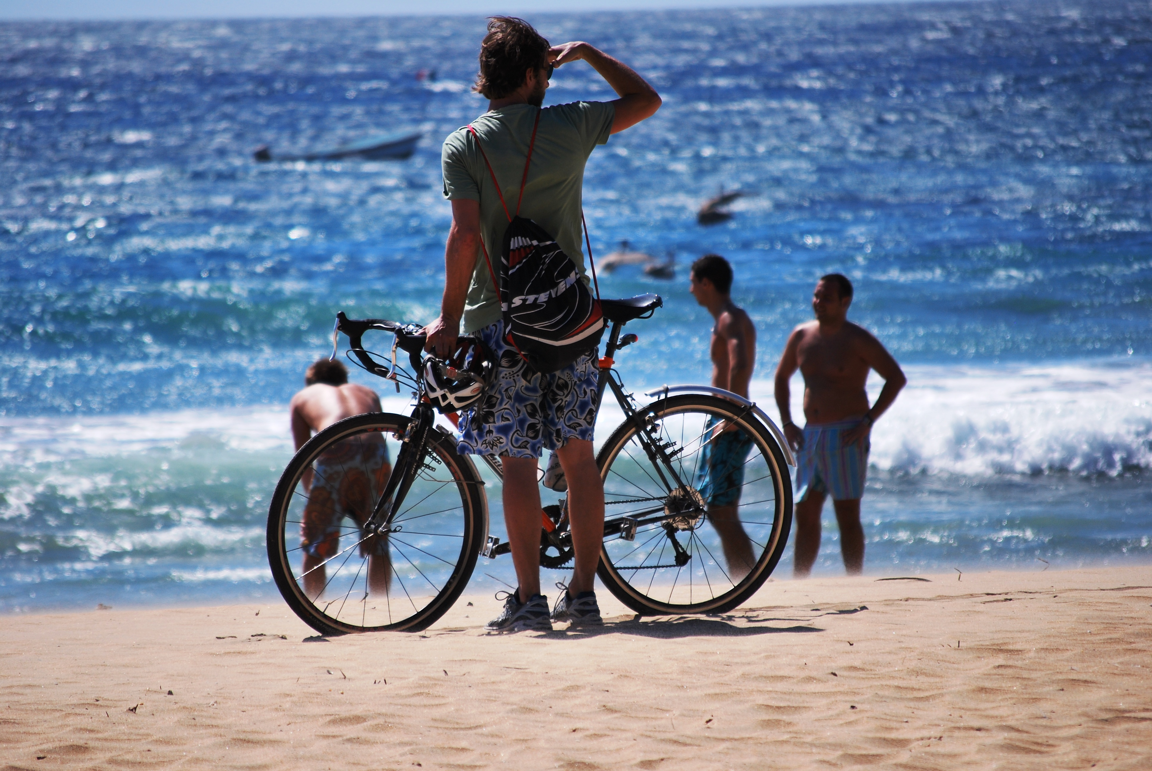 Man with bike on the beach as San Agustinillo, Tonameca, Oaxaca, Mexico